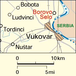 May 1998 Eastern Slavonia in Croatia